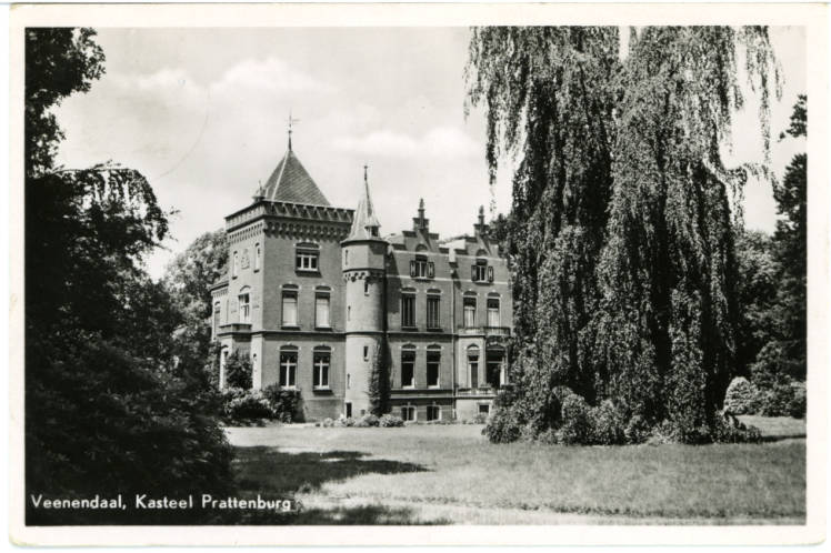 Kasteel Prattenburg in 1935